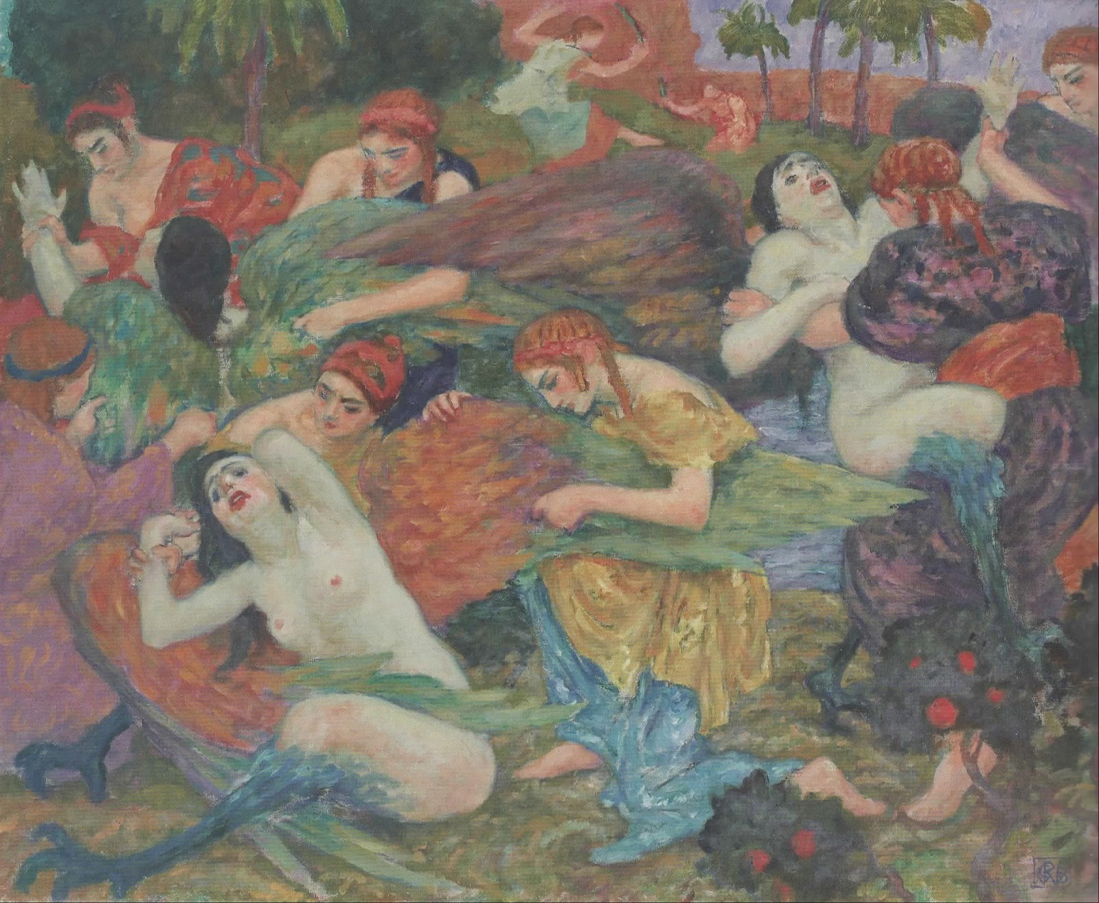 The Muses Plucking the Wings of the Sirens, c. 1922